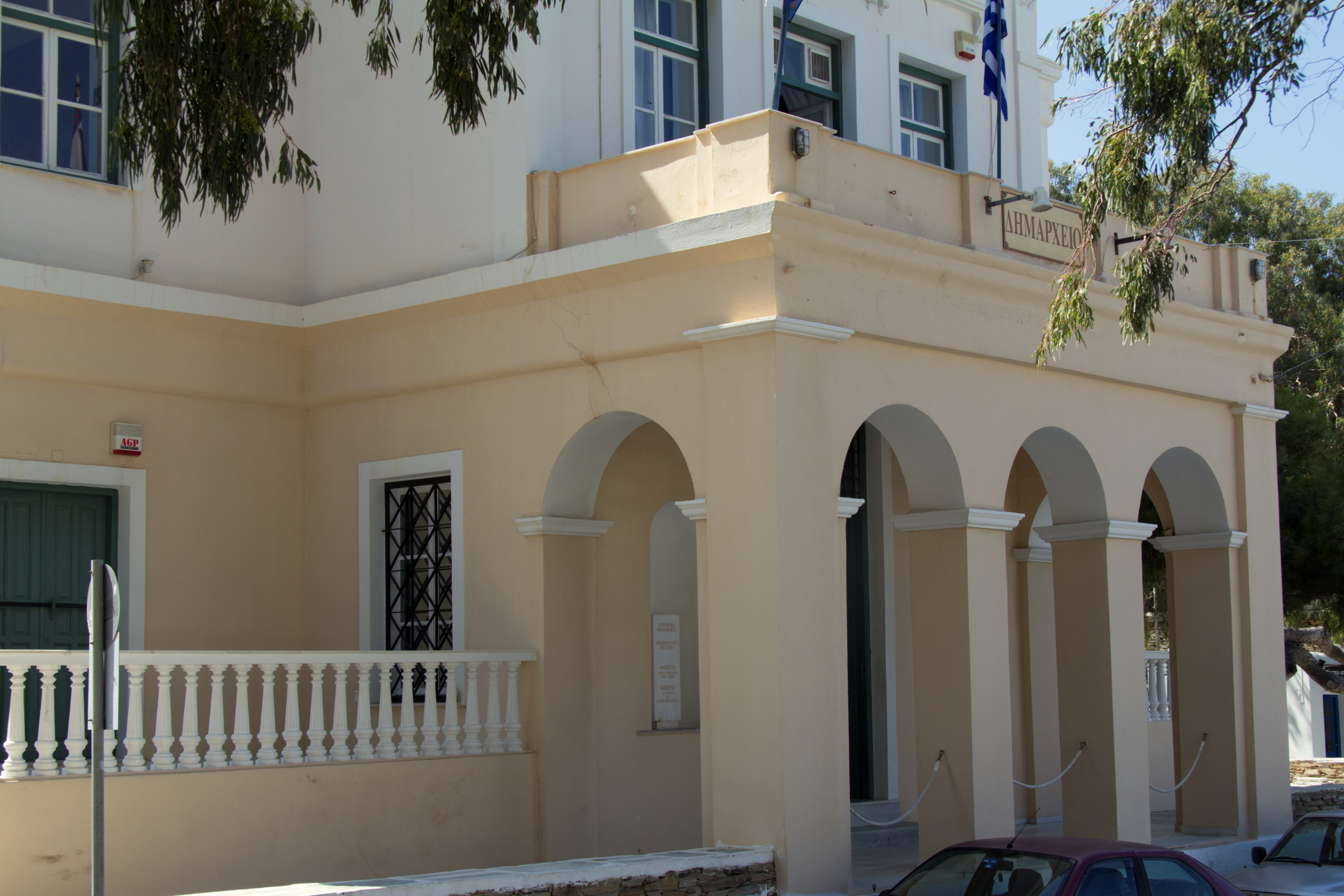 Archaeological Museum of Ios is located in the Town Hall. Are there new findings from the area Skarkos and graves near Chora. Obsidian blade fragments of small Cycladic idols and fragments of bowls from the early Bronze Age. Full remained a mortar. Economic aspects starokykladského seat findings show fingerprints sealing stamps, but also goat bones and shells. From the Late Bronze Age, there are findings of this layer in Skarkos: Fragments of ceramic mugs in Mycenaean style. There are interesting relationships between the different layers of the Bronze Age, between three cultures: Early Cycladic, Minoan and Achaea (Greece). From the Greek Antiquity is ceramics, ranging from archaic times, and marble sculptures from the Hellenistic and Roman periods. Homeric tradition on the island of Ios illustrated in Roman times plaque with the inscription, which uses ancient calendar in the local version. Does the "Homer month." They found the foundations of the monastery of Agia Theodoti, off the east coast of the island of Ios.